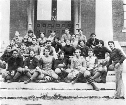 The 1896 varsity football team for the Alabama Polytechnic Institute, now Auburn University.[1]